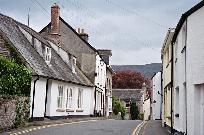 Crickhowell streetscape (Powys, Wales)